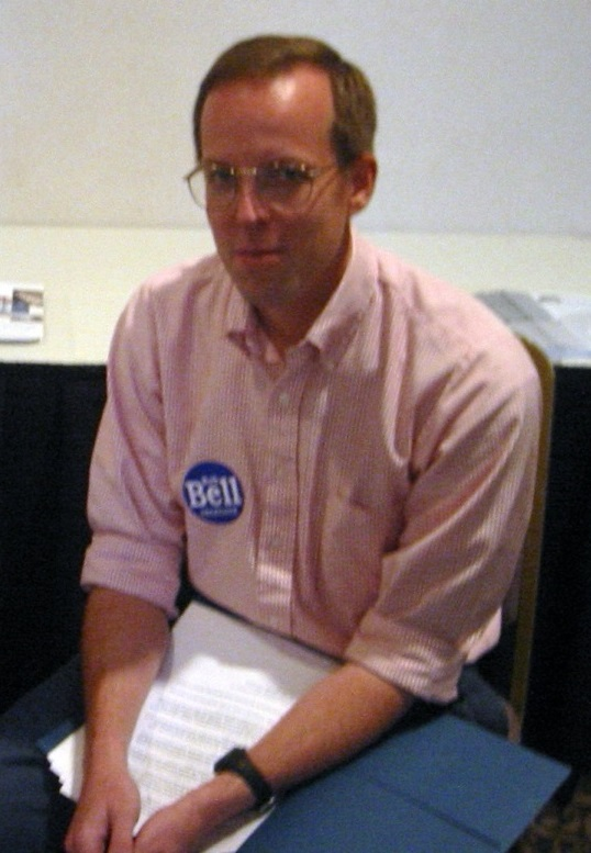 Virginia politician and role playing game designer Rob Bell.